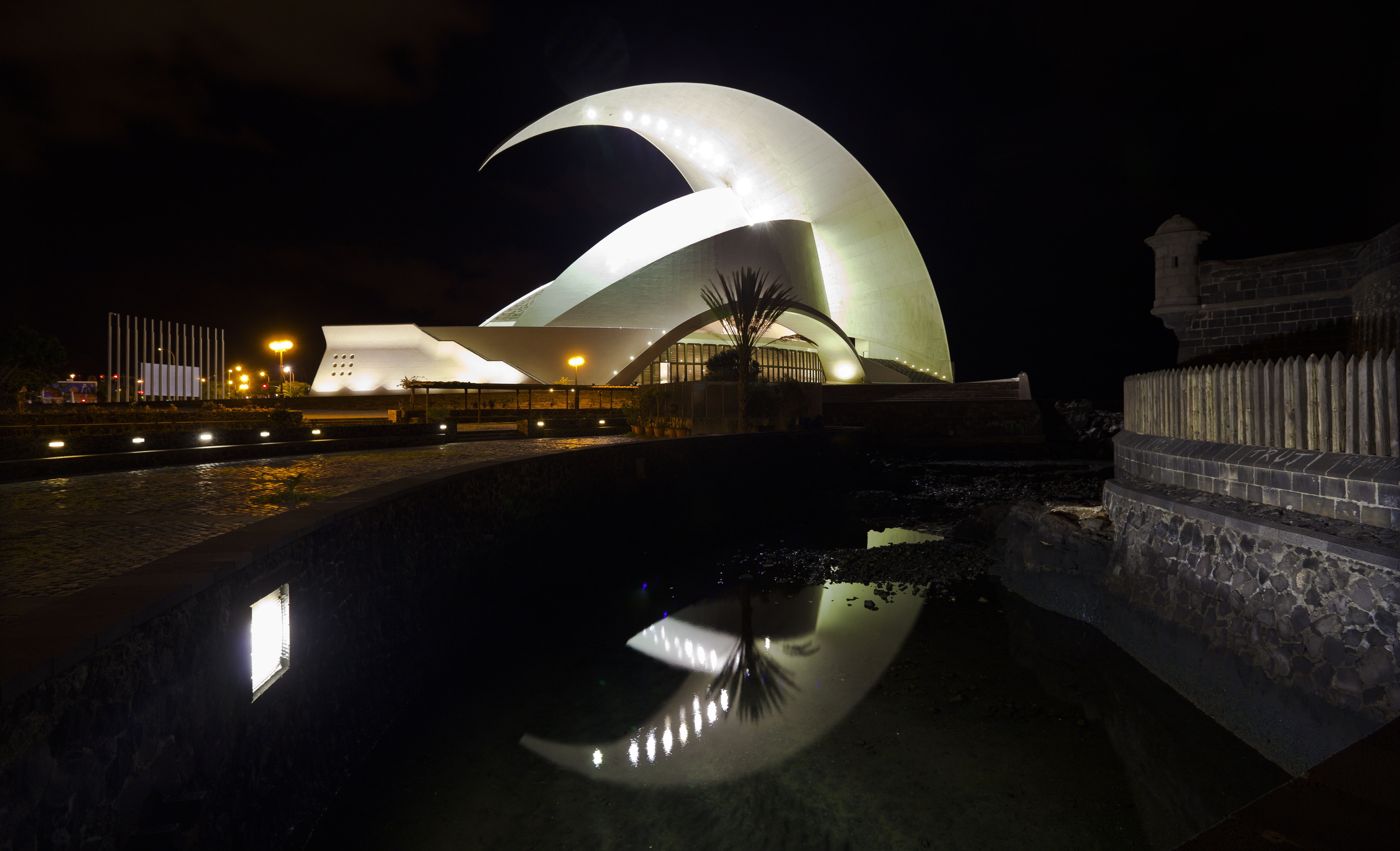 Auditorium of Tenerife, Santa Cruz de Tenerife, Spain